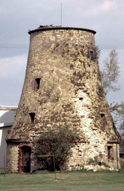 Windmill in Lechtingen 1982